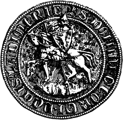 Seal of Yuri I of Galicia